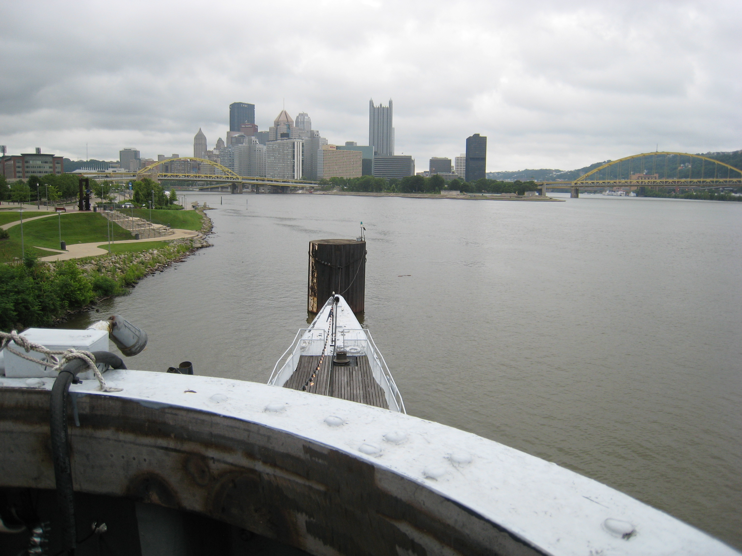 View of the city of Pittsburgh from the sail of the USS Requin on 6/13/2010. ClarkBHM (talk) 03:44, 14 June 2010 (UTC)